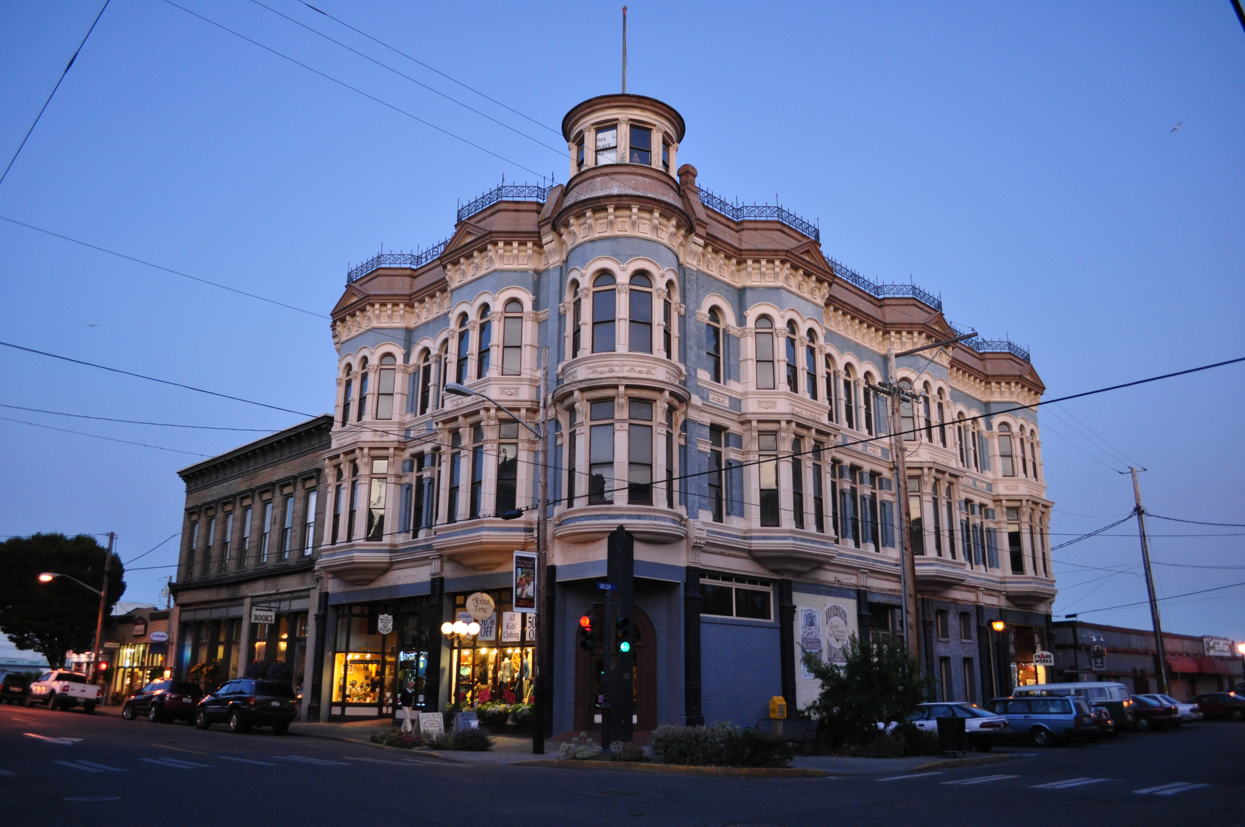 The Hastings Building, 833-839 Water Street, Port Townsend, Washington.